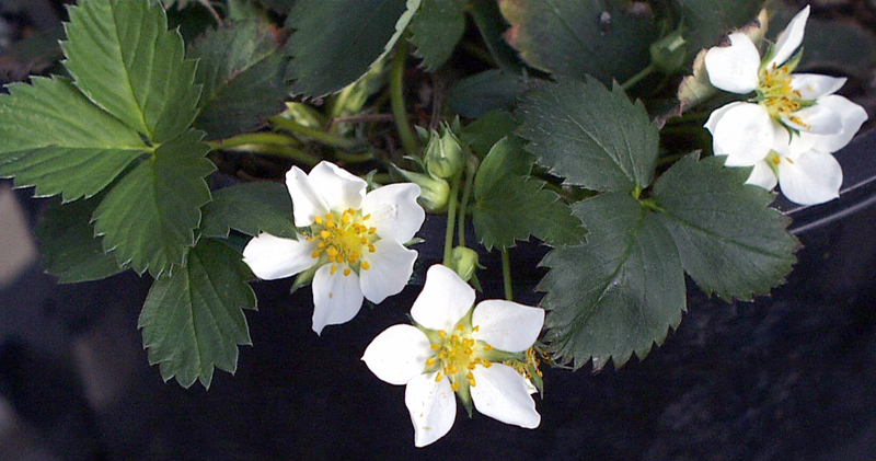 strawberry flower